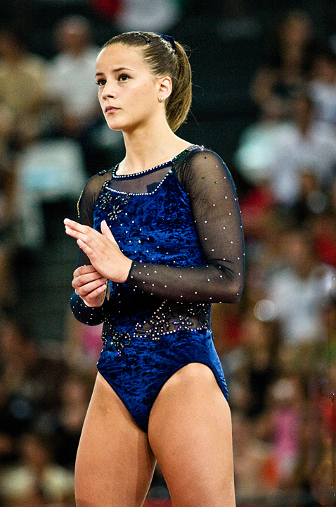 Francesca Benolli (b. 1989) at the Mediterraneo Gym Cup July 5th 2008 in Rome